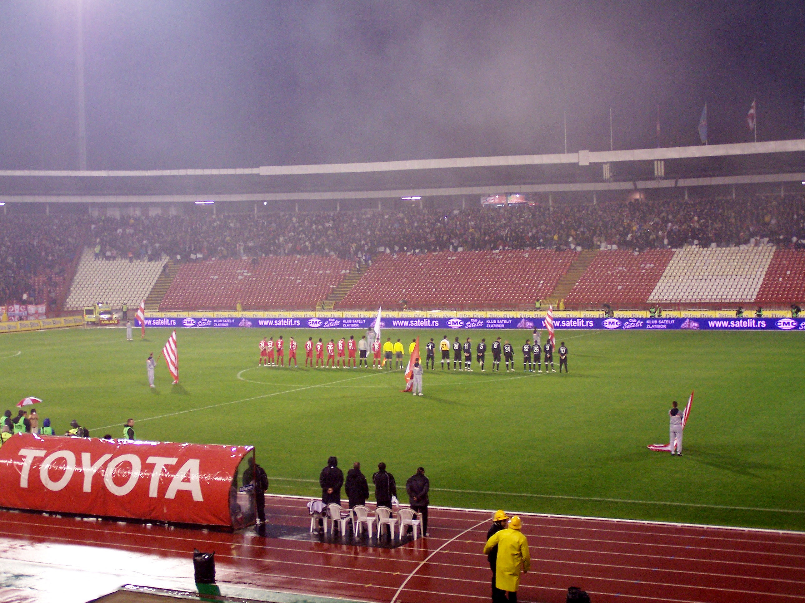 Players before the FK Crvena Zvezda - FK Partizan match in Belgrade